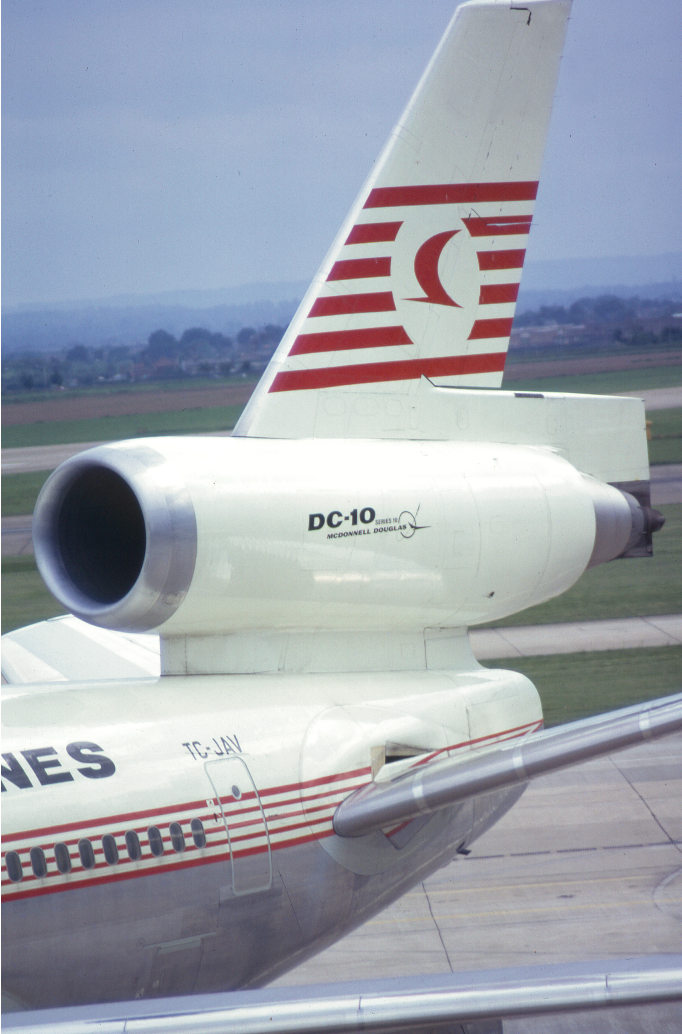 A General Electric CF6-6D turbofan engine and tail of a McDonnell Douglas DC-10-10 aircraft (TC-JAV) of Turkish Airlines. This aircraft crashed in Ermenonville forest in France on 3 March 1974. You can see the left rear cargo door which was the ultimate cause for the accident.